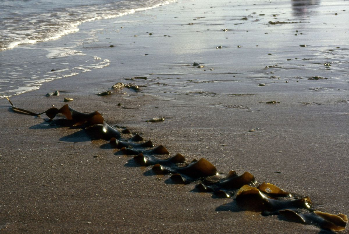 Laminaria saccharina, Helgoland (Germany)